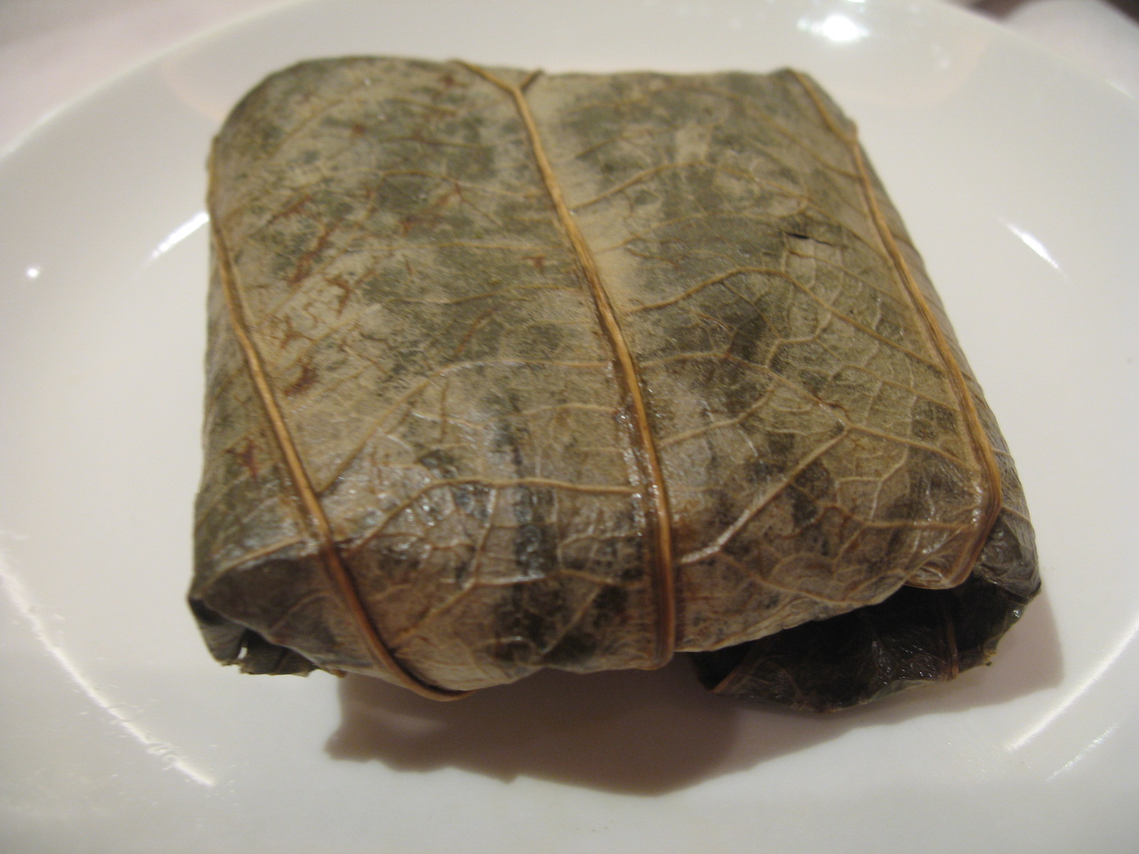 Lou mai gai.